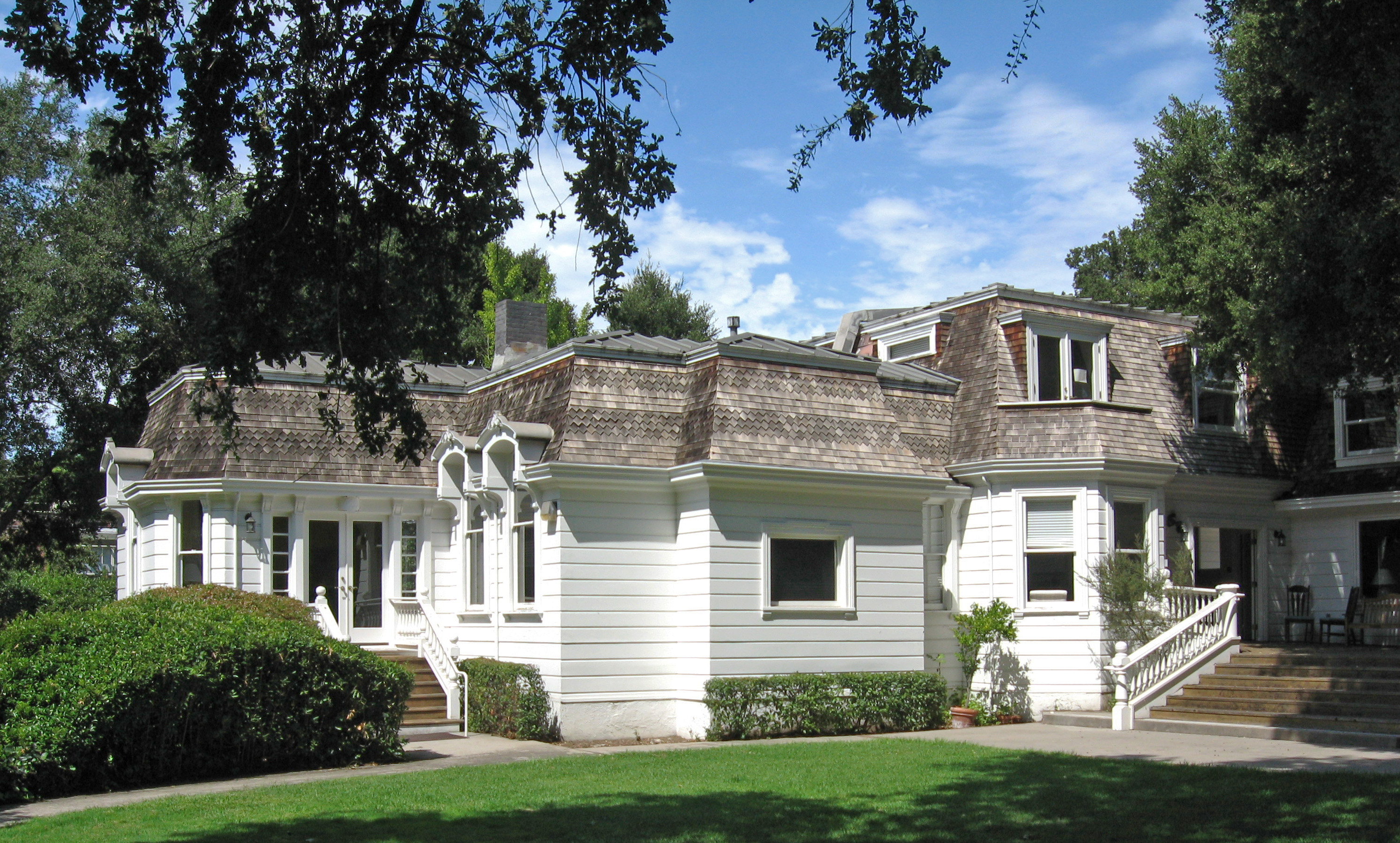 Formerly a gatehouse, the main house is now gone, and it is in present-day Menlo Park, California. Listed on the National Register of Historic Places in San Mateo County, California.